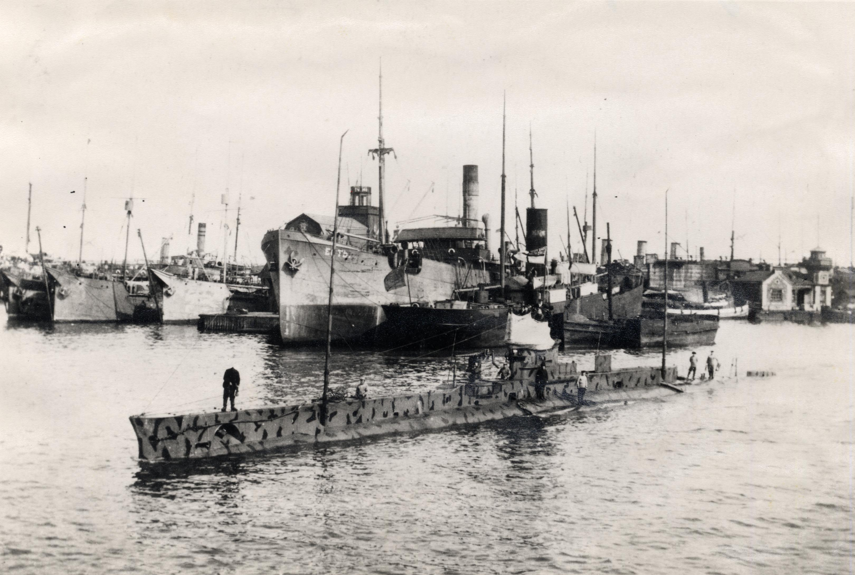 HMS E18 leaving Reval (now Tallinn, Estonia) for the last time on 25 May 1916, before her sinking on 2 June 1916.